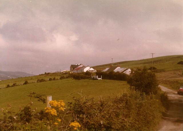 Clonglash